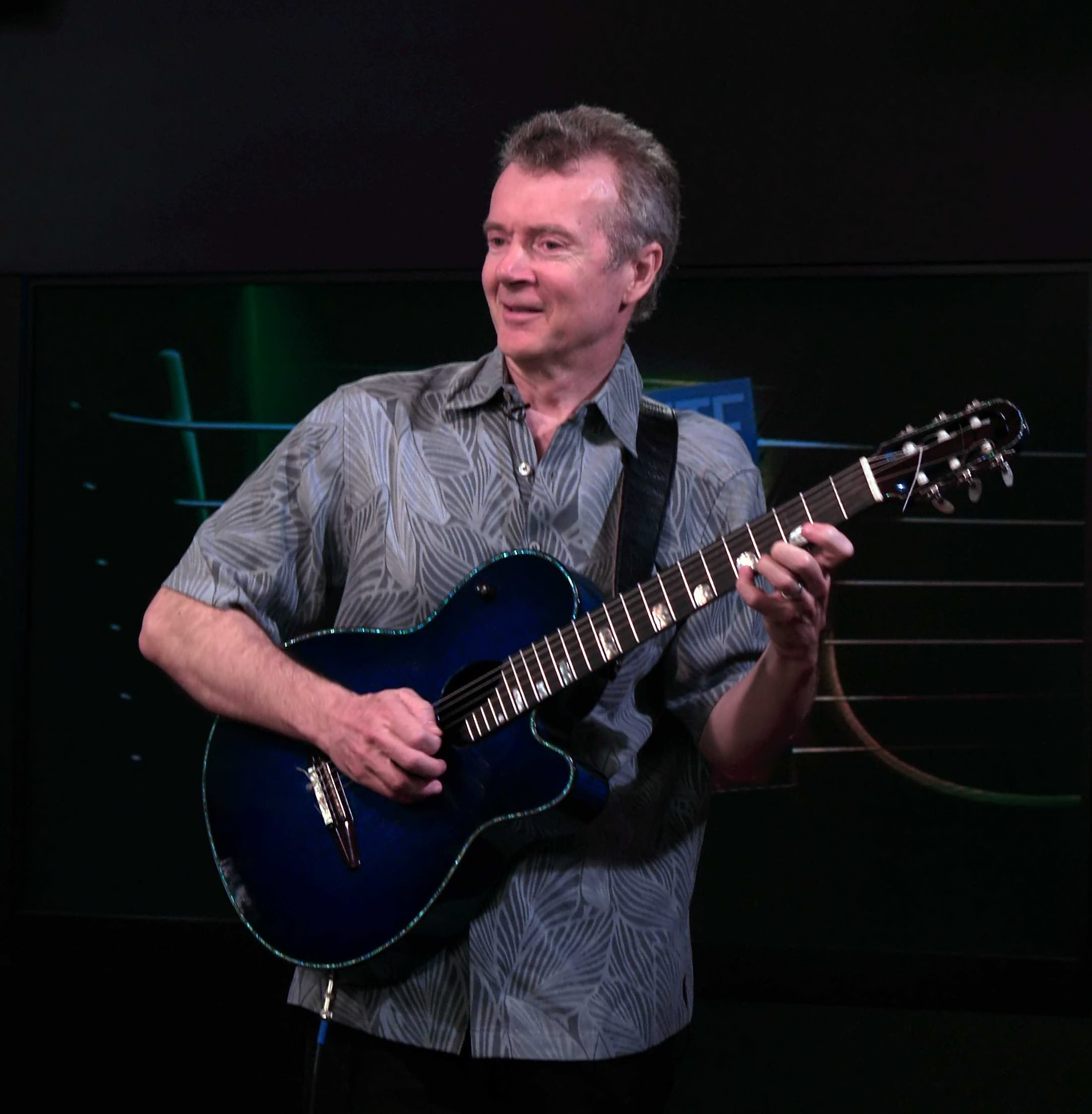 I took this photo of guitarist Peter White in San Diego. Please acknowledge "Phil Konstantin" as the creator of this photograph.